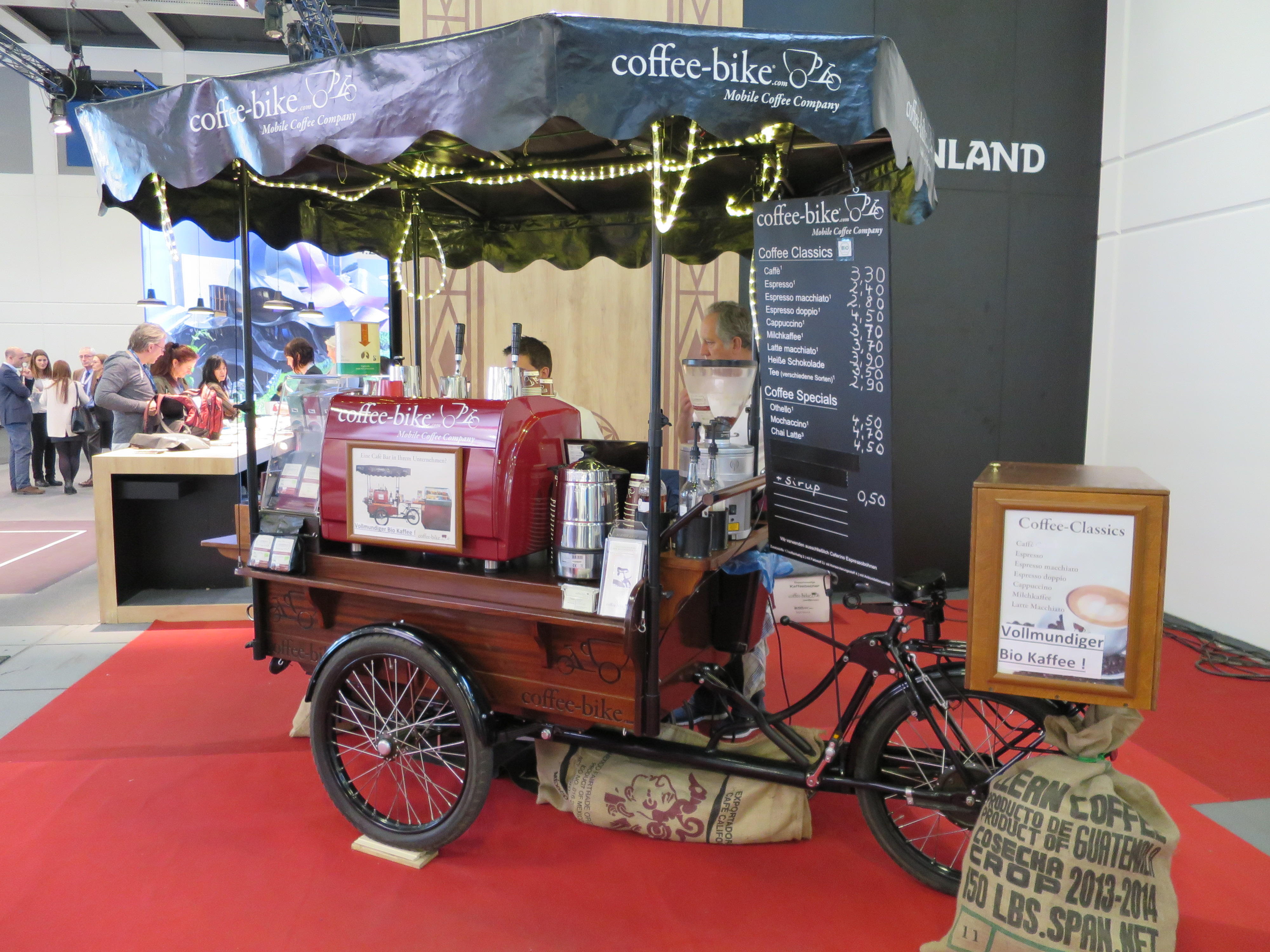 ITB Berlin 2016 The making of this document was supported by Wikimedia Polska Association, within Wikigrant no. WG 2016-9. English | polski | +/−